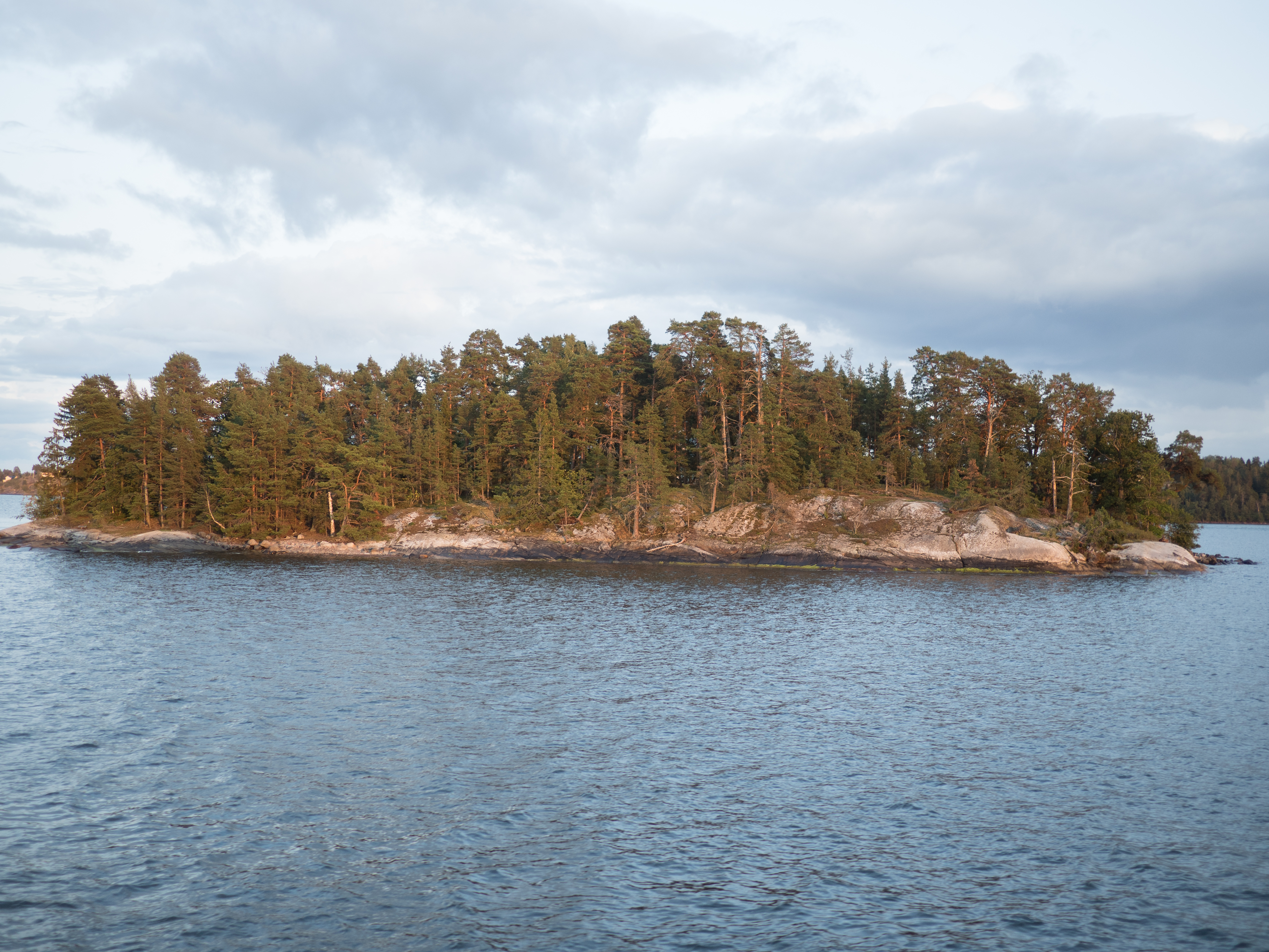 Lilla Höggarn